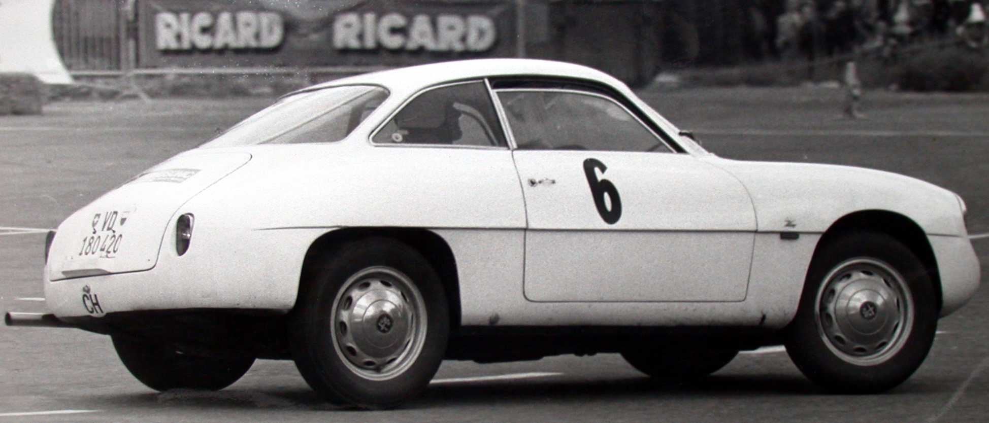 Alfa Romeo Giulietta SZ (Sprint Zagato)